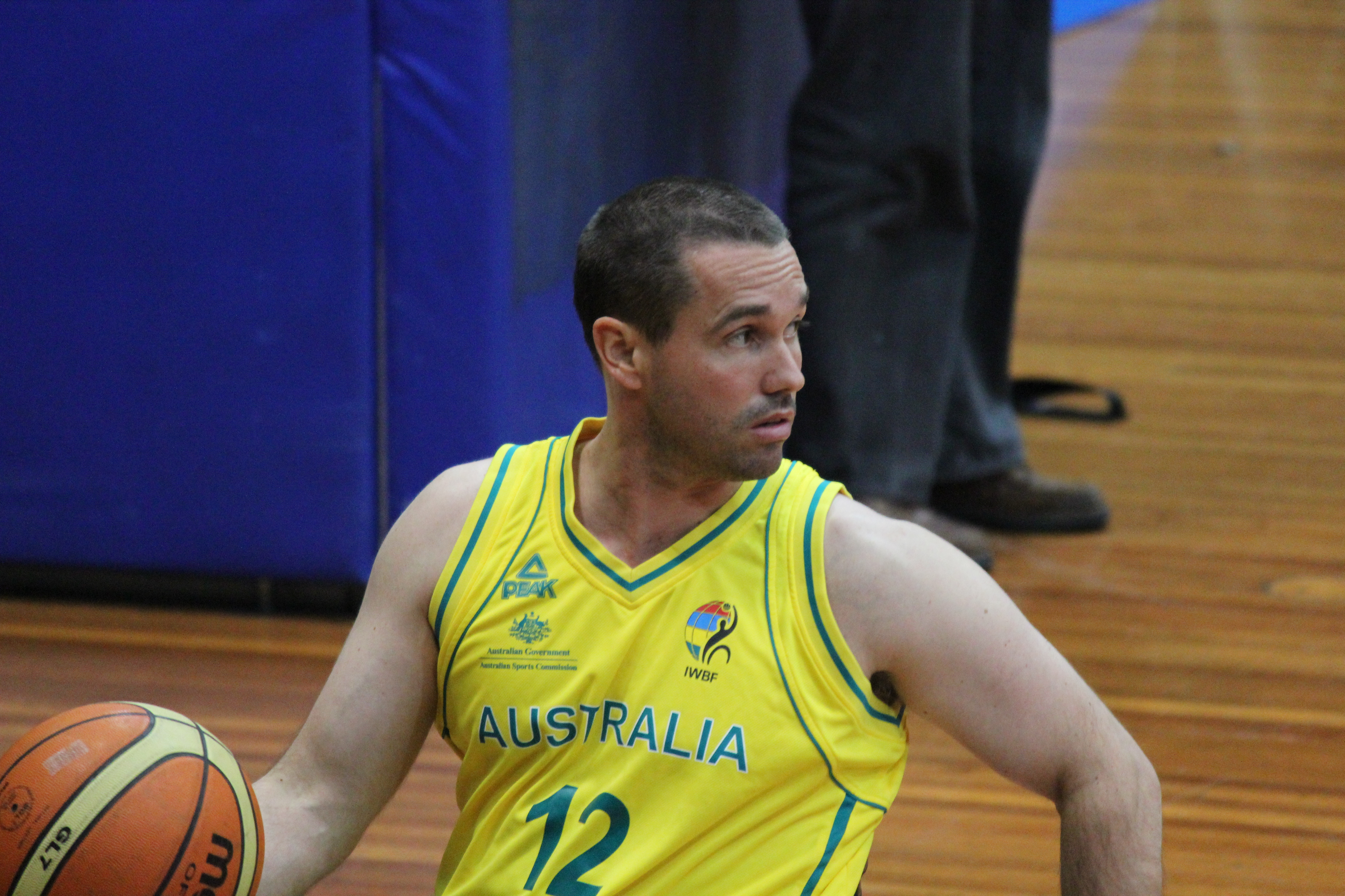 65–51 Australia men;s 19 July 2012 win over the Great Britain men's national wheelchair basketball team at Sydney;s Olympic Park. Grant Mizens.